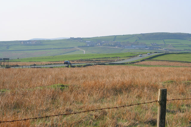 A53 on Morridge Top. View across the far north west corner of the square. Flash SK0267 can be seen in the distance nestling up against Oliver Hill (513m above sea level). Height of view point is 459 metres.